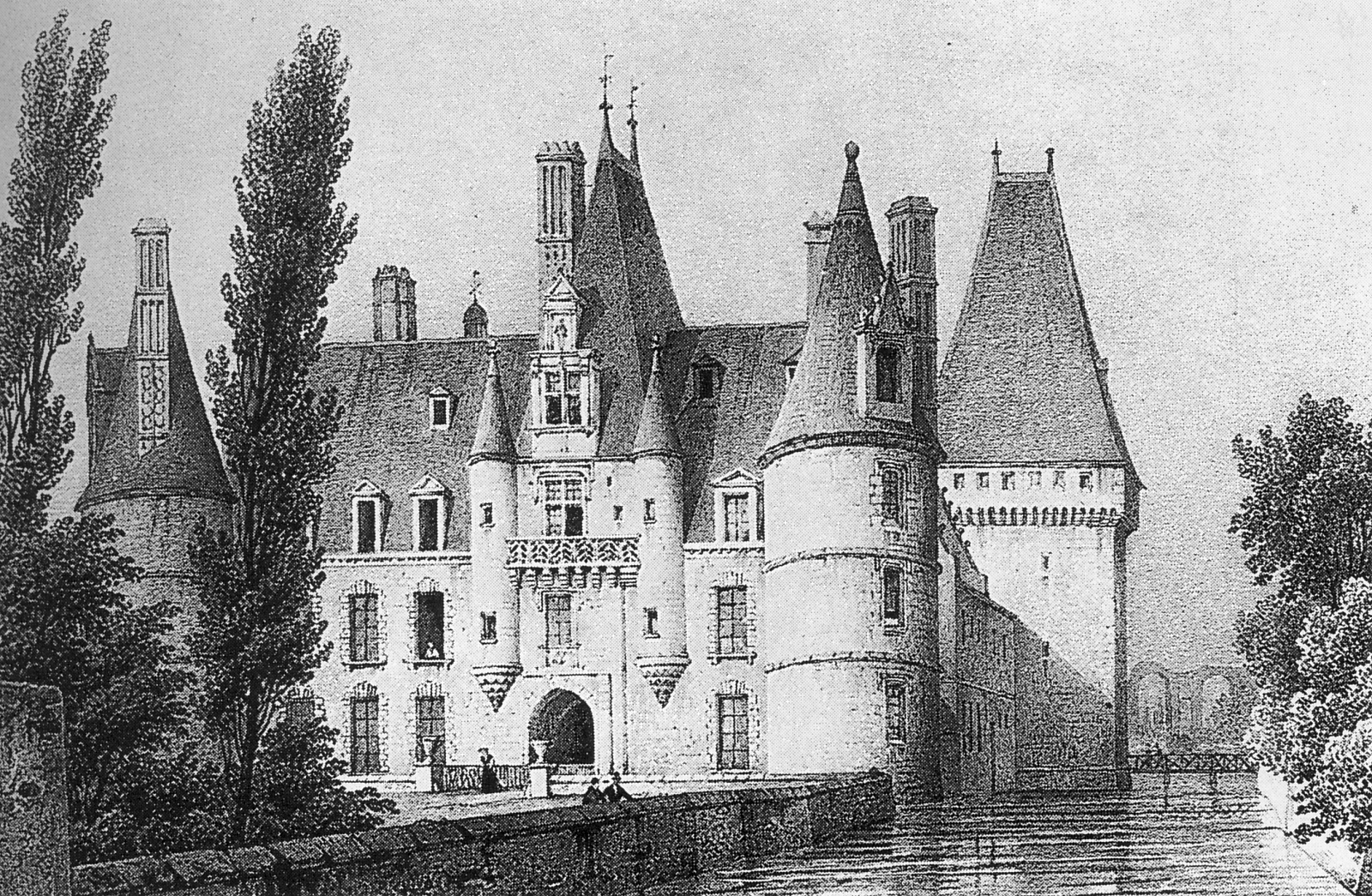 Château de Maintenon, old lithograph